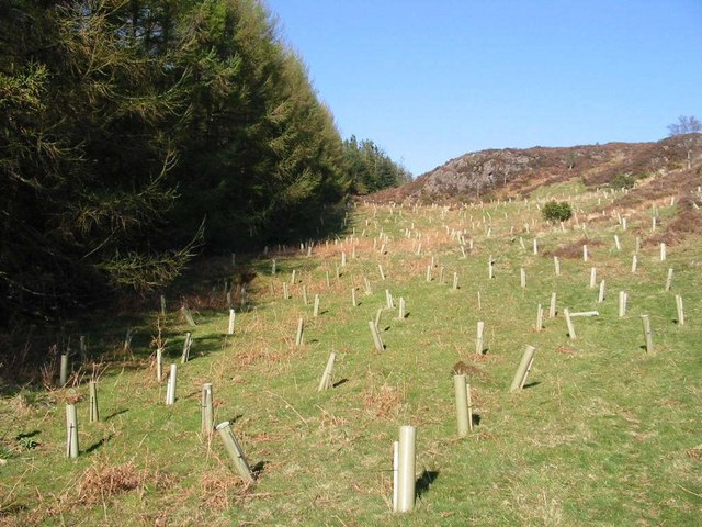 Tree planting. Woodland of the future. In each plastic tube a hardwood tree has been planted.